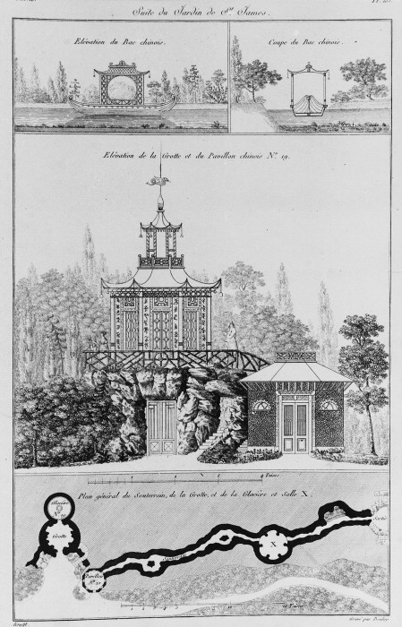 Elevations and section of fabriques in the garden of the Folie Saint-James in Neuilly-sur-Seine, France. From top to bottom: Bac Chinois (Chinese Ferry); Pavillon Chinois (Chinese Pavilion); and a plan of the Souterrain (Underground Passageway), of the Grotto and the Glacière (Ice House). See the annotations on the image for more details.